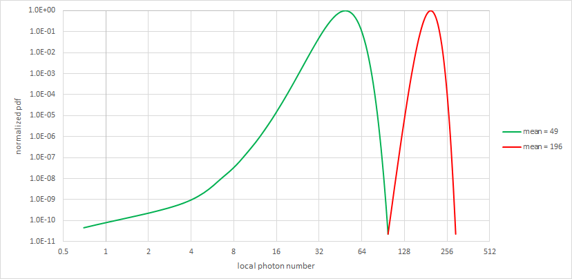 The distribution of local photon numbers is shown for two different nominal mean photon numbers. The local photon number would correspond to the local dose in a nanometer-scale area. The lower dose distribution has a longer low tail. Although the mean of the higher dose distribution is 4x that of the lower one, the far tails of the two distributions are separated by over two orders of magnitude. One photon per square nanometer is equivalent to a dose of 1.47 mJ/cm2.